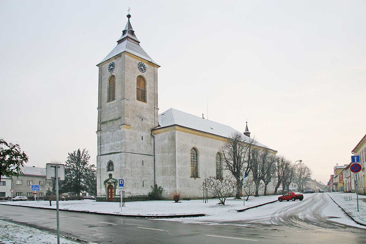 Church of the Assumption in Nechanice, Hradec Králové District, Czech Republic